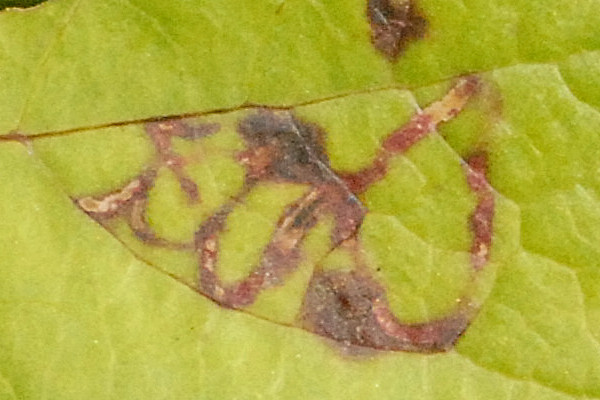 Platyptilia gonodactyla from Commanster, Belgian High Ardennes .